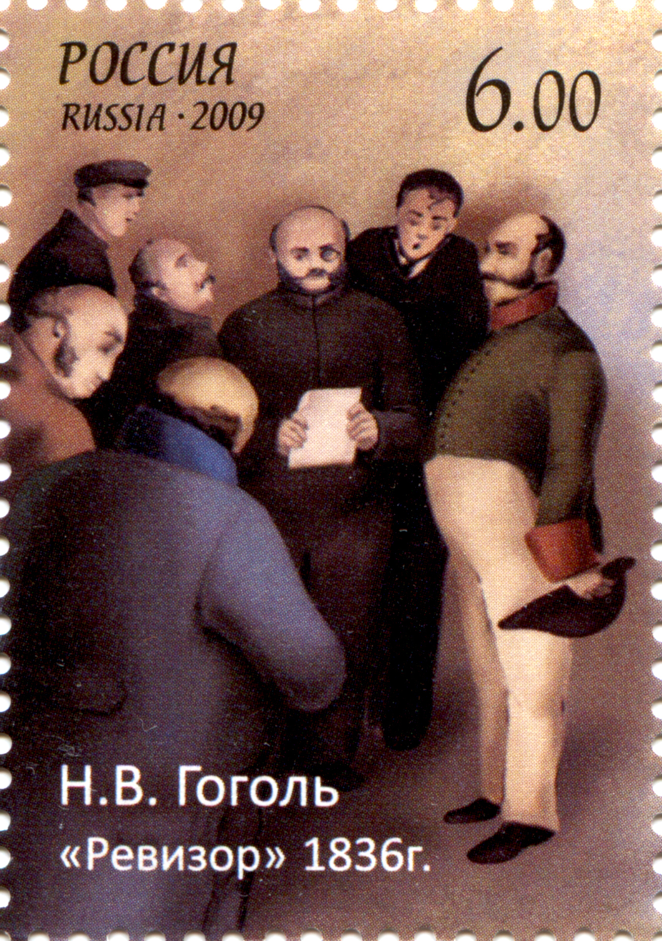 A stamp depicting The Government Inspector, from the souvenir sheet of Russia devoted to the 200th birth anniversary of Nikolay V. Gogol, 2009.